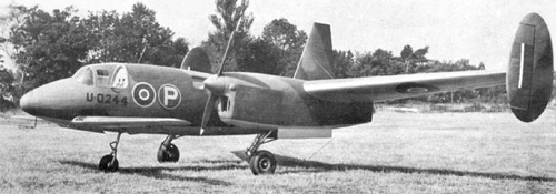 The Miles Libellula M.39B U-O244.